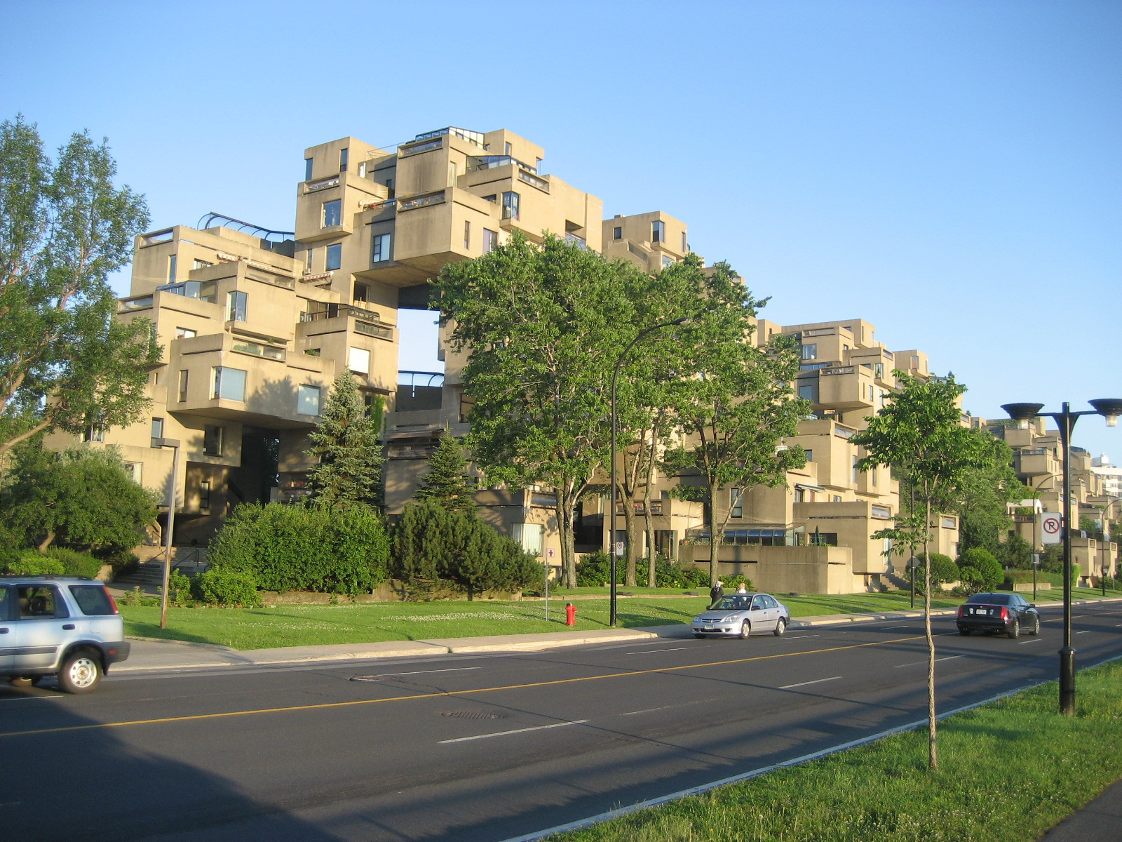 Habitat 67 Summer 2010